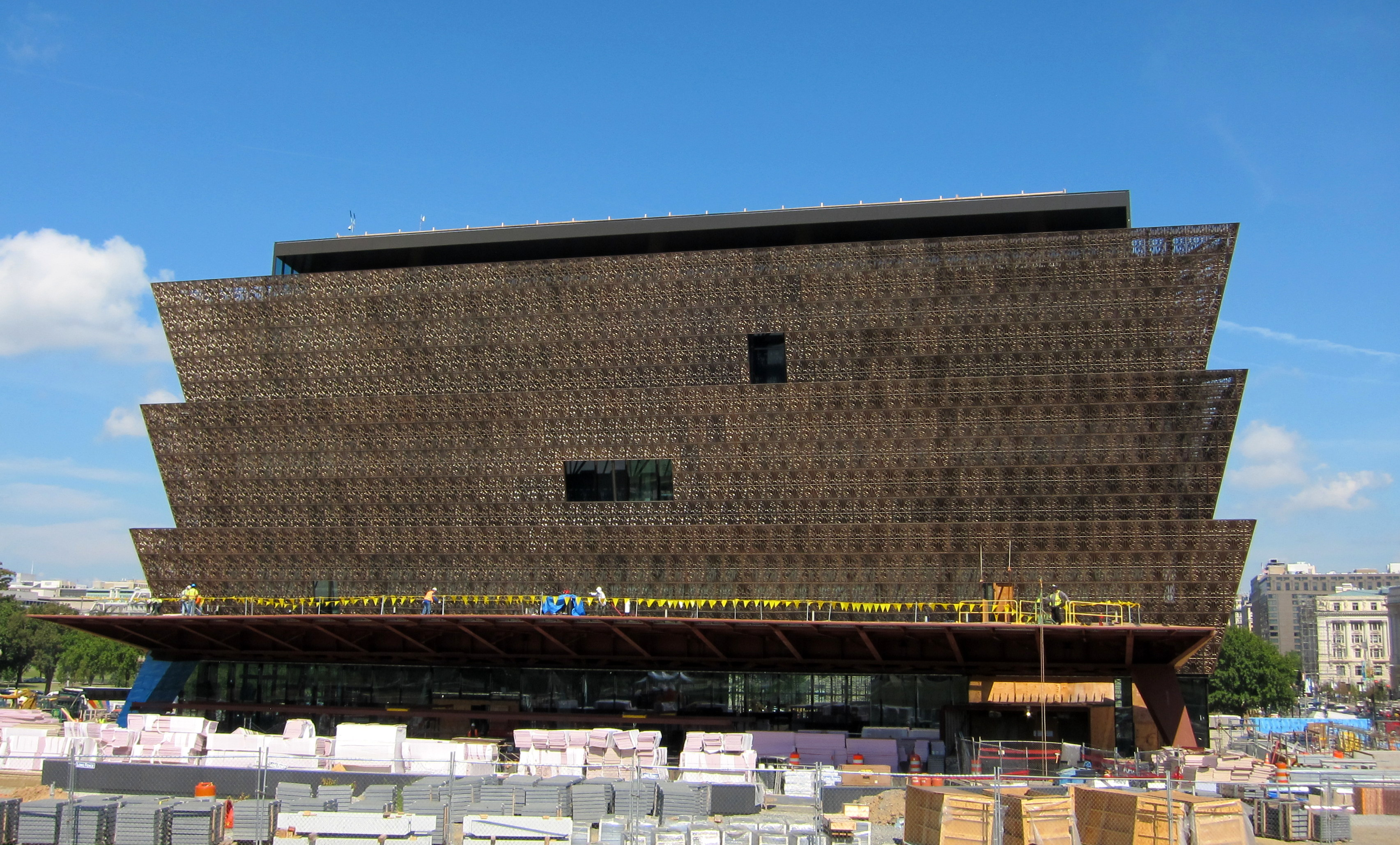 The National Museum of African American History and Culture under construction in Washington, D.C.